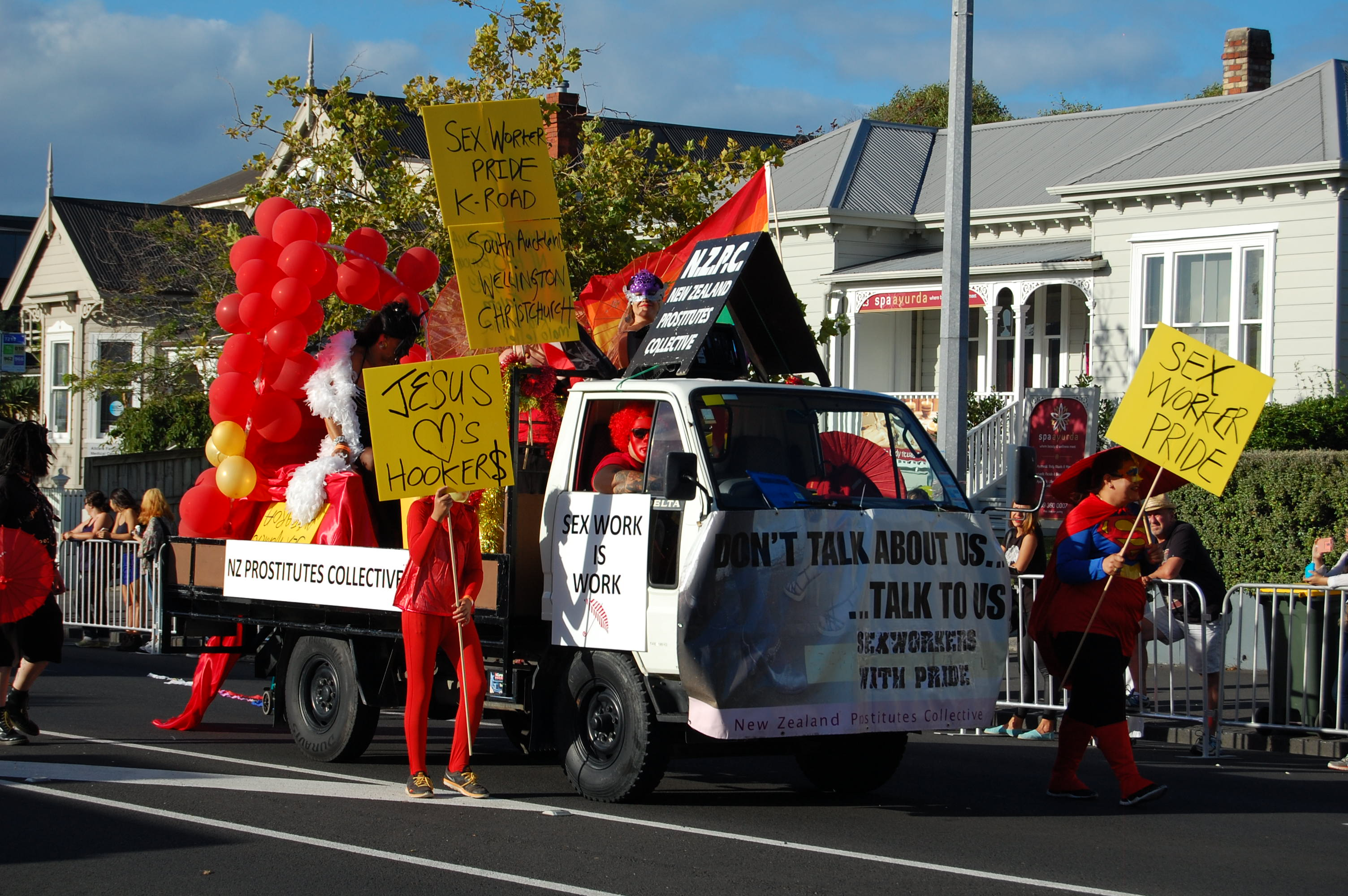 New Zealand Prostitutes' Collective on Auckland pride parade 2016 Personality rights warningAlthough this work is freely licensed or in the public domain, the person(s) shown may have rights that legally restrict certain re-uses unless those depicted consent to such uses. In these cases, a model release or other evidence of consent could protect you from infringement claims.